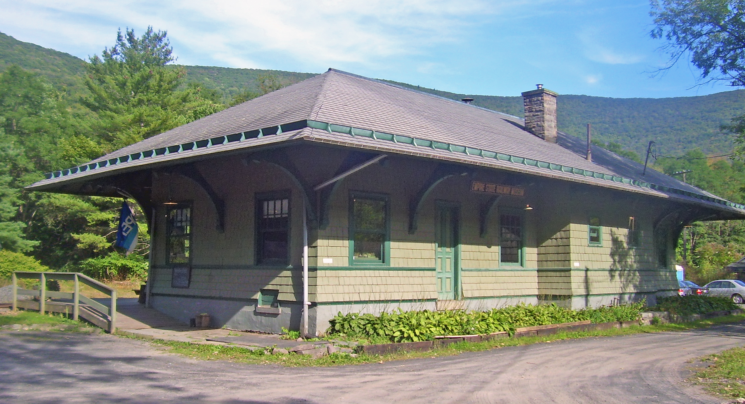 Phoenicia, NY, Railroad Station. Now Empire State Rail Museum. Used by the Catskill Mountain Railroad.